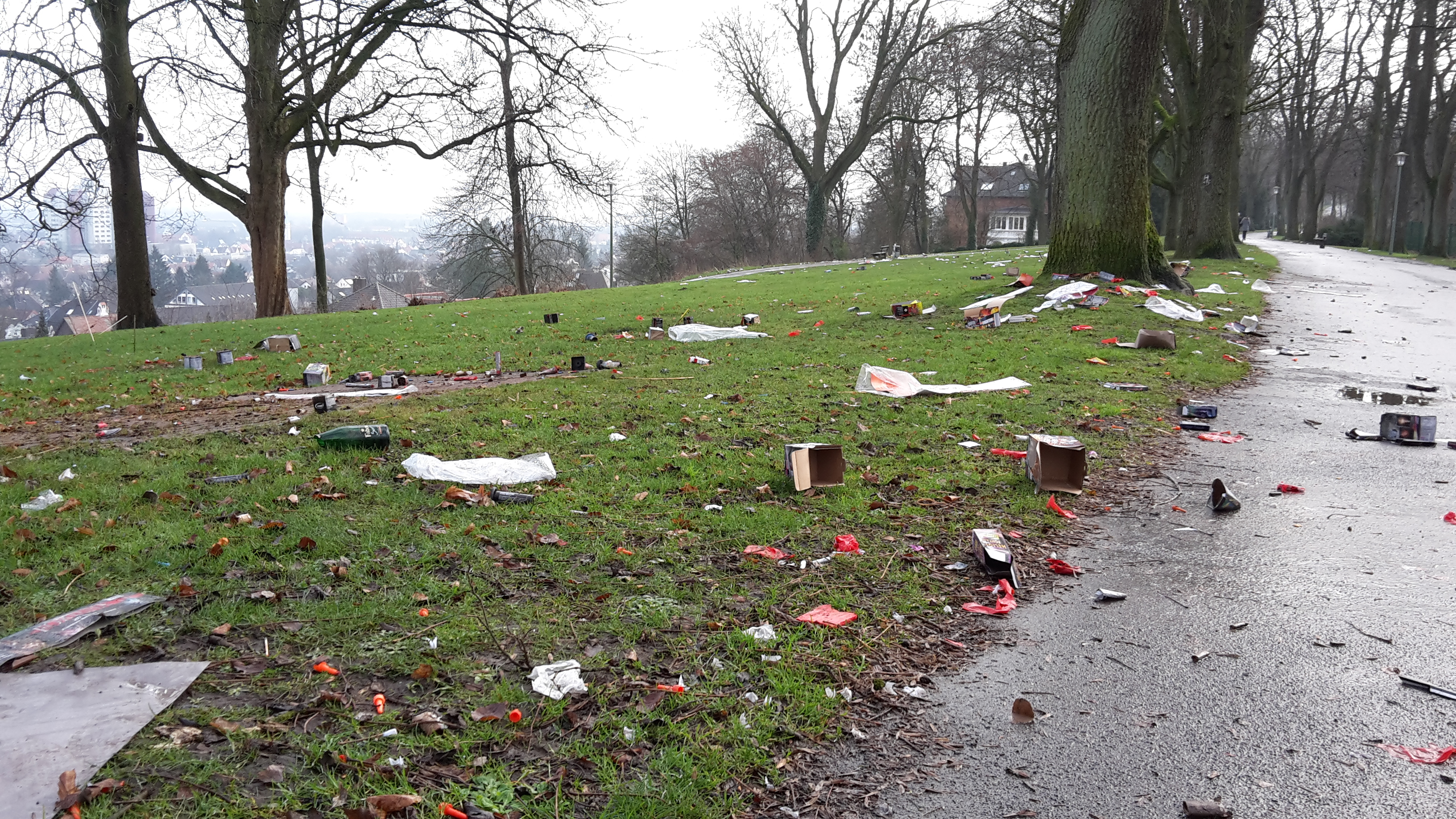 Germany, Bielefeld: Sparrenberg Castle (commonly named “Sparrenburg”) on January 1, 2016. Lawn before Sparrenburg after the New Year fireworks 2015/2016.